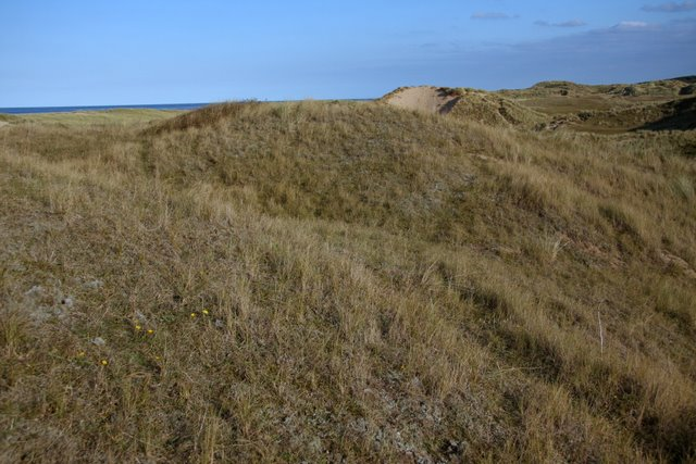 Grey dunes. The most landward dune ridge. The sand is stabilised by the vegetation. The greyness is from lichens that can develop in the stable environment. The next photo in the transect is 733427.